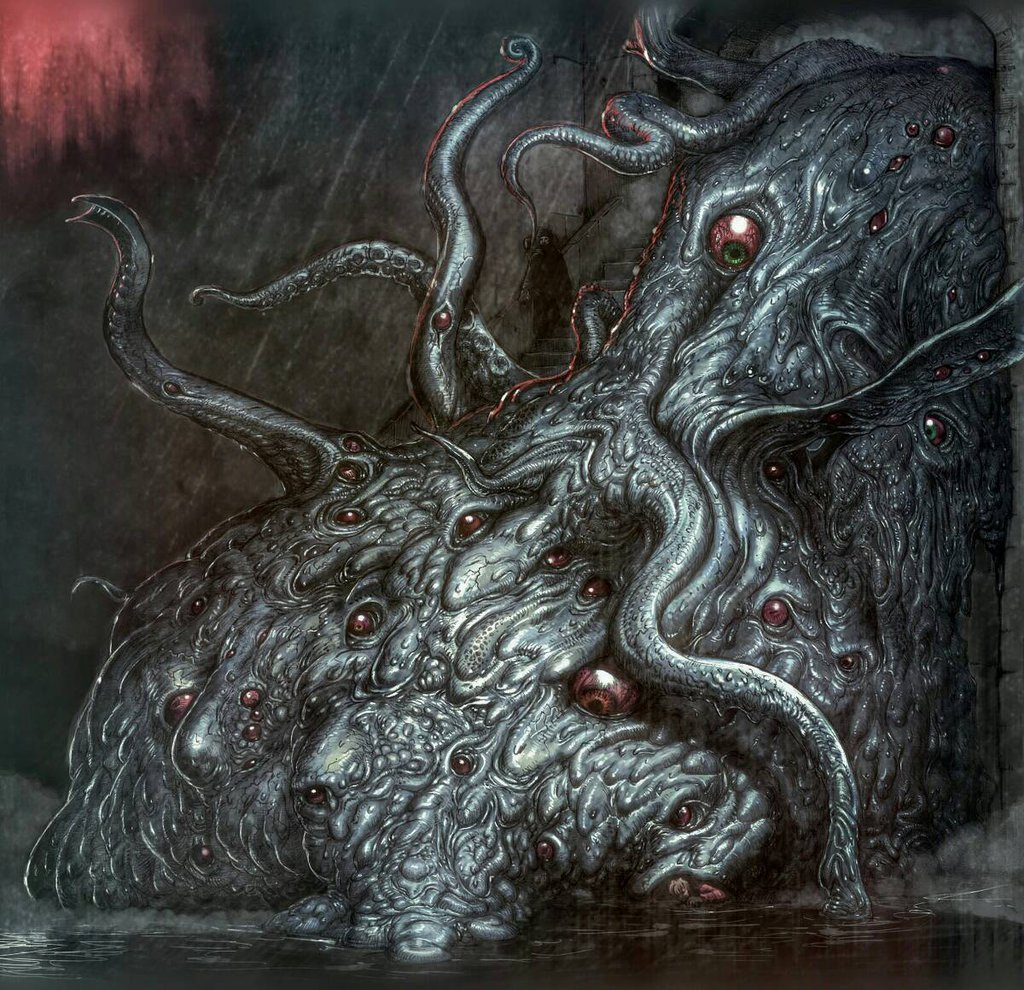 A Shoggoth. Nottsuo's artwork inspired by H .P. Lovecraft's short novel At the Mountains of Madness.